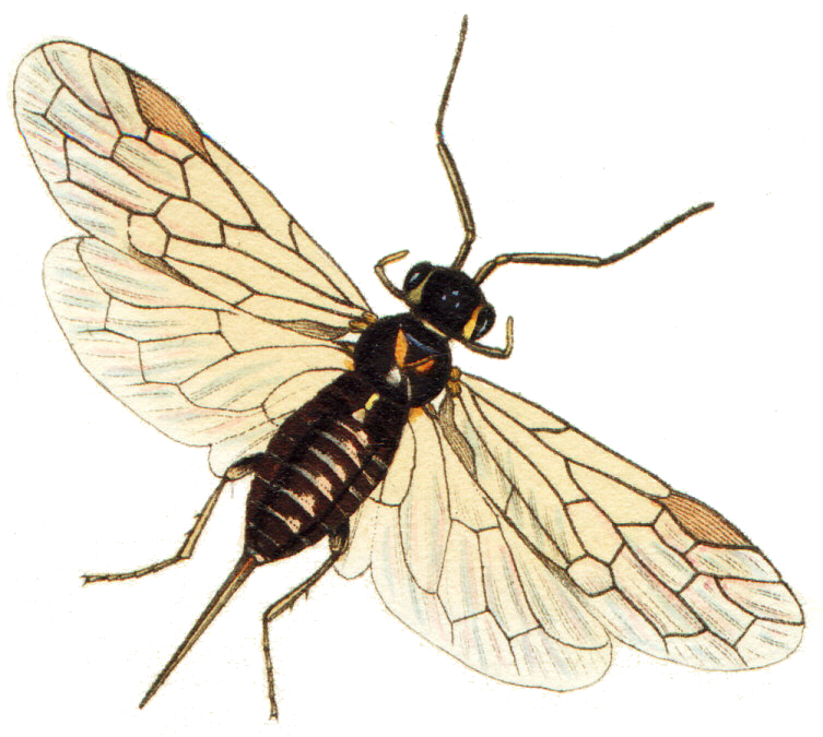 An illustration from British Entomology by John Curtis. Xyela pusilla Symphyta